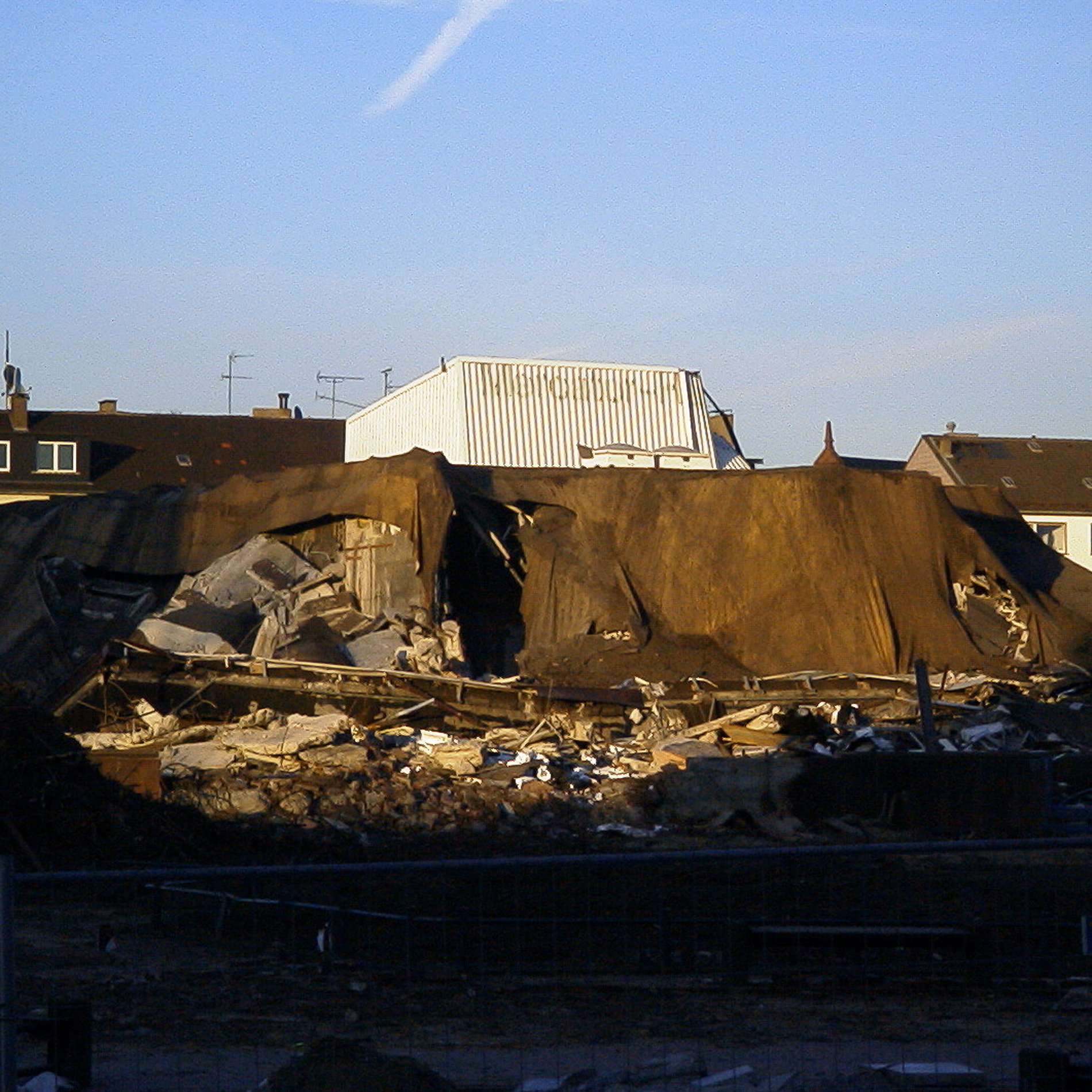 Construction site in Duisburg: The „Mercatorhalle“ - completed in 1962 - in debris, 2005. (Part of the original photo; photographed by BlackIceNRW.)